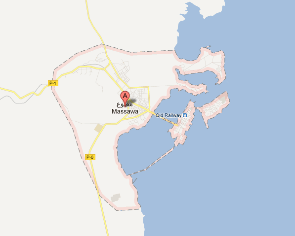 Map of Massawa which include the mainland and the two islands, Taulud and Batse.